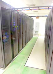 This server farm supports the various computer networks of Joint Task Force Guantanamo. By the end of November these units will be transferred to a newer facility in Camp Bulkeley that will provide greater protection from heavy rains and hurricanes.